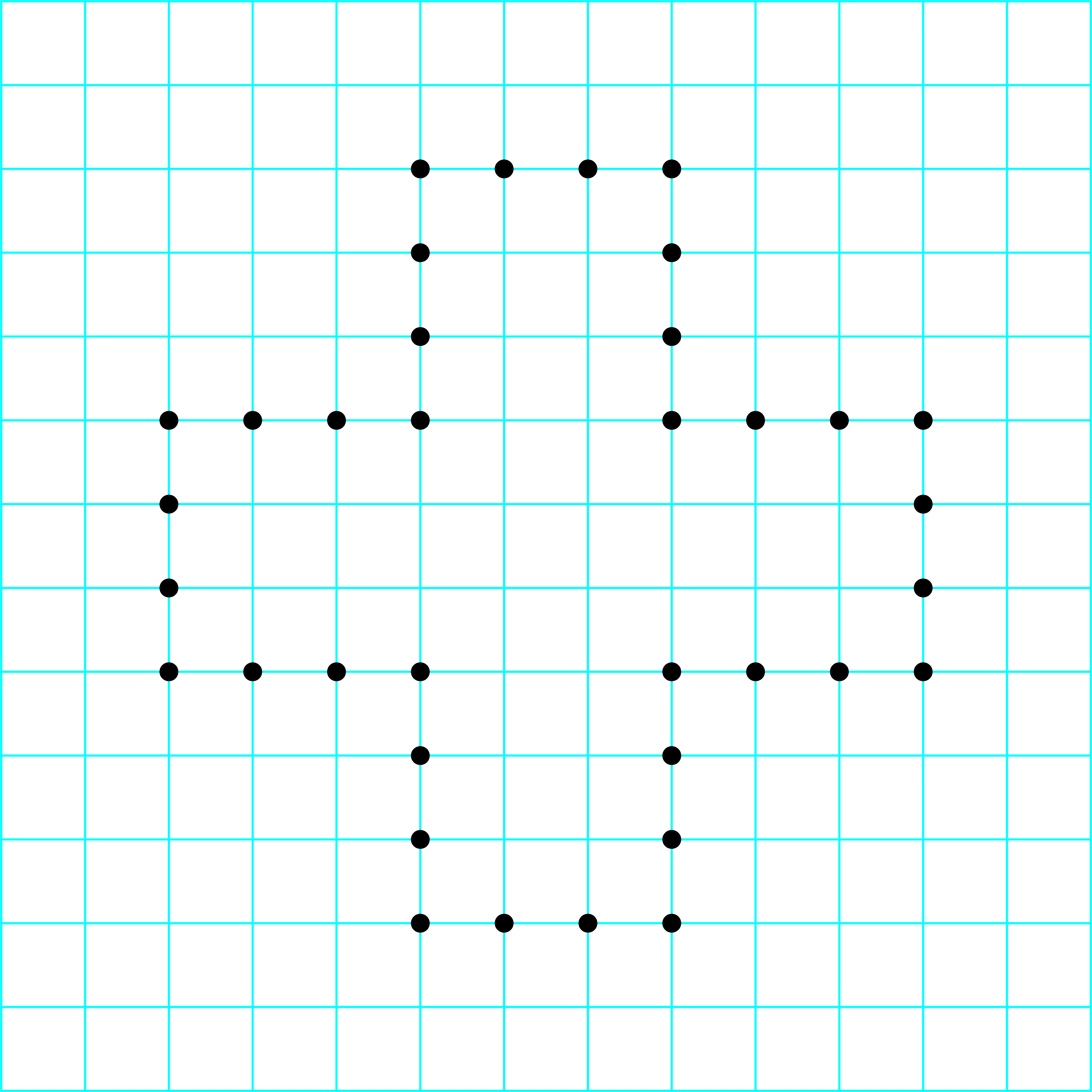 Morpion solitaire, initial grid. The dots show the initial cross, a greek cross.